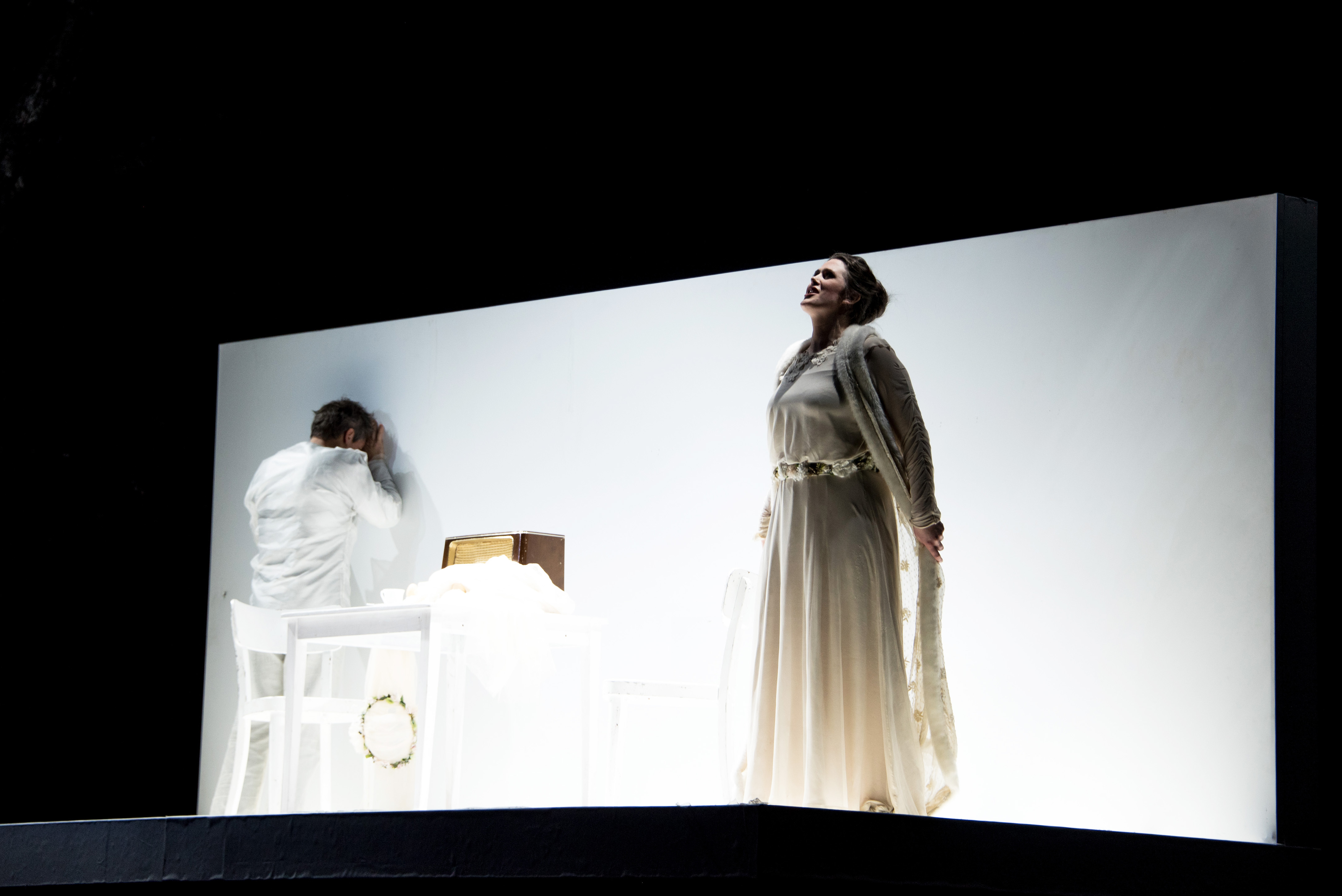 Lohengrin by Richard Wagner, Opera Oslo 2015